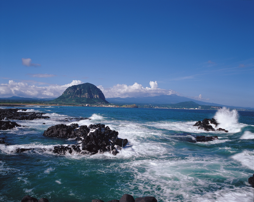 Jeju-do, a Special Self-Governing Province is the only special autonomous province of Korea, situated on and coterminous with the country's largest island.